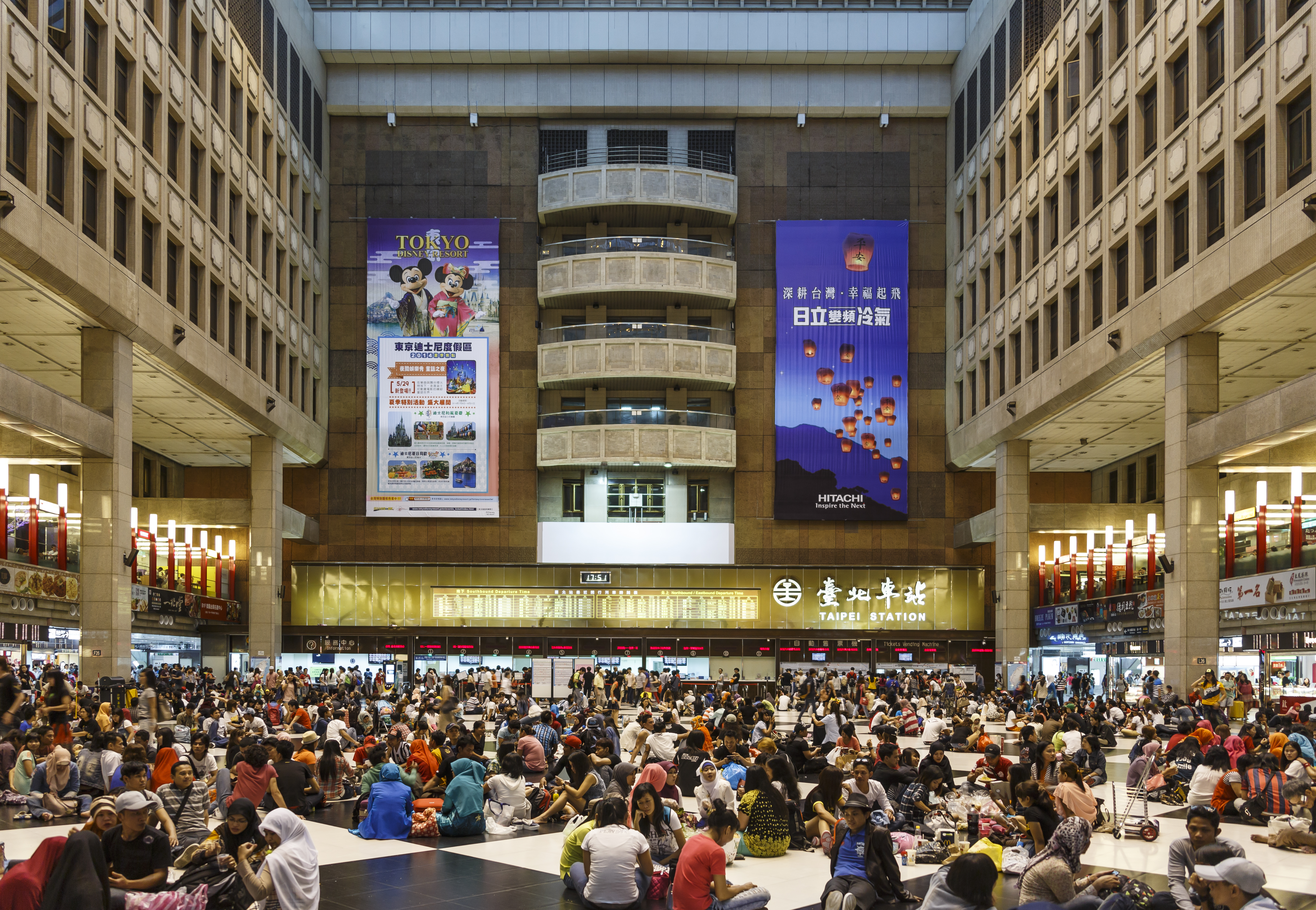 Taipei, Taiwan: People waiting inside Taipei Railway Station